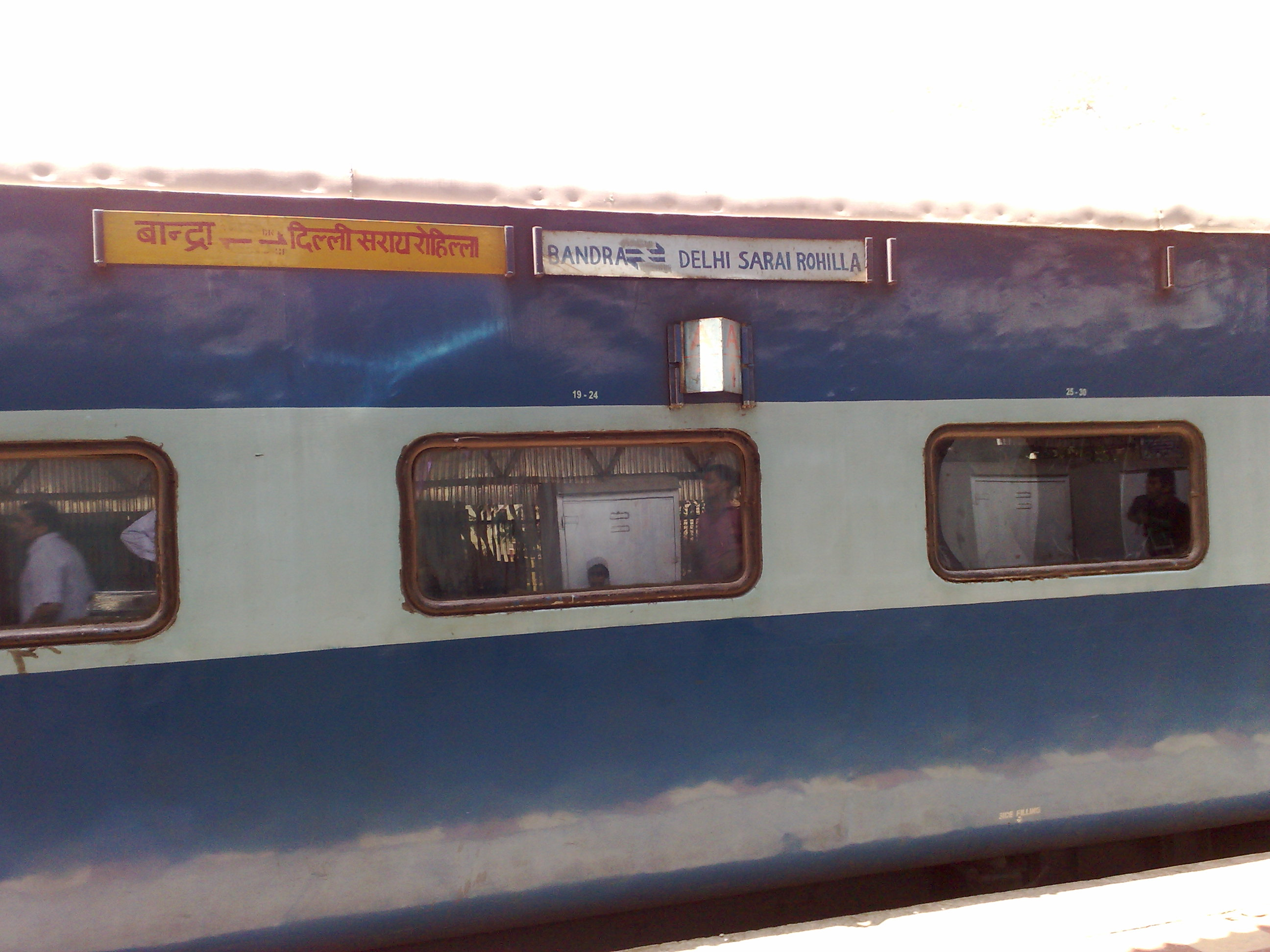 Bandra Terminus Delhi Sarai Rohilla Express - AC 2 tier coach